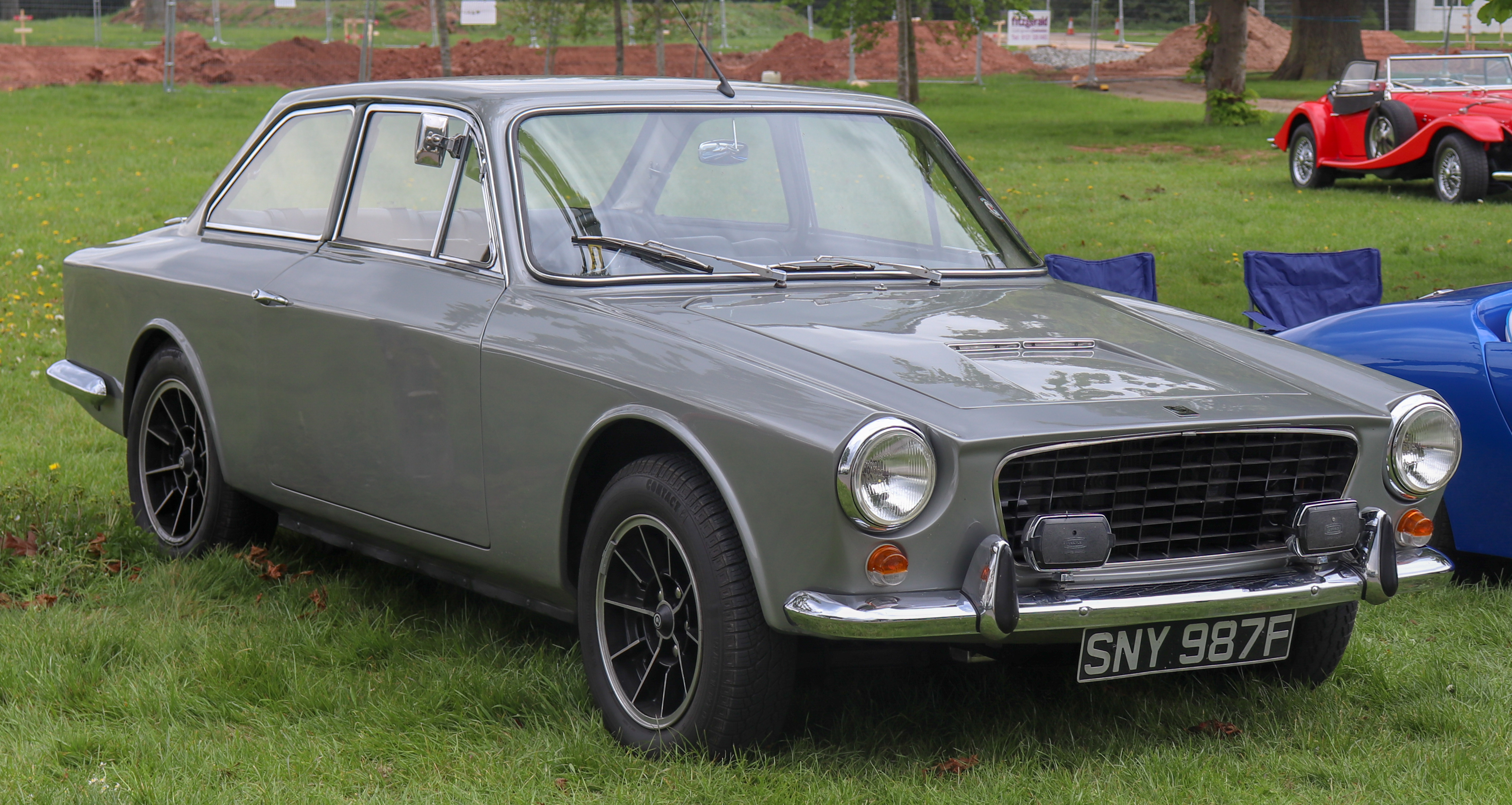 1968 Gilbern Genie 3.0 Front Taken at the Stoneleigh National Kit Car Motor Show 2019